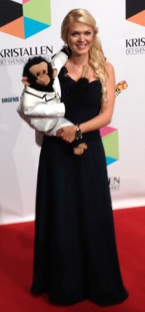 Ventriloquist Zillah & Totte at the official swedish television awards Kristallen in 2012.